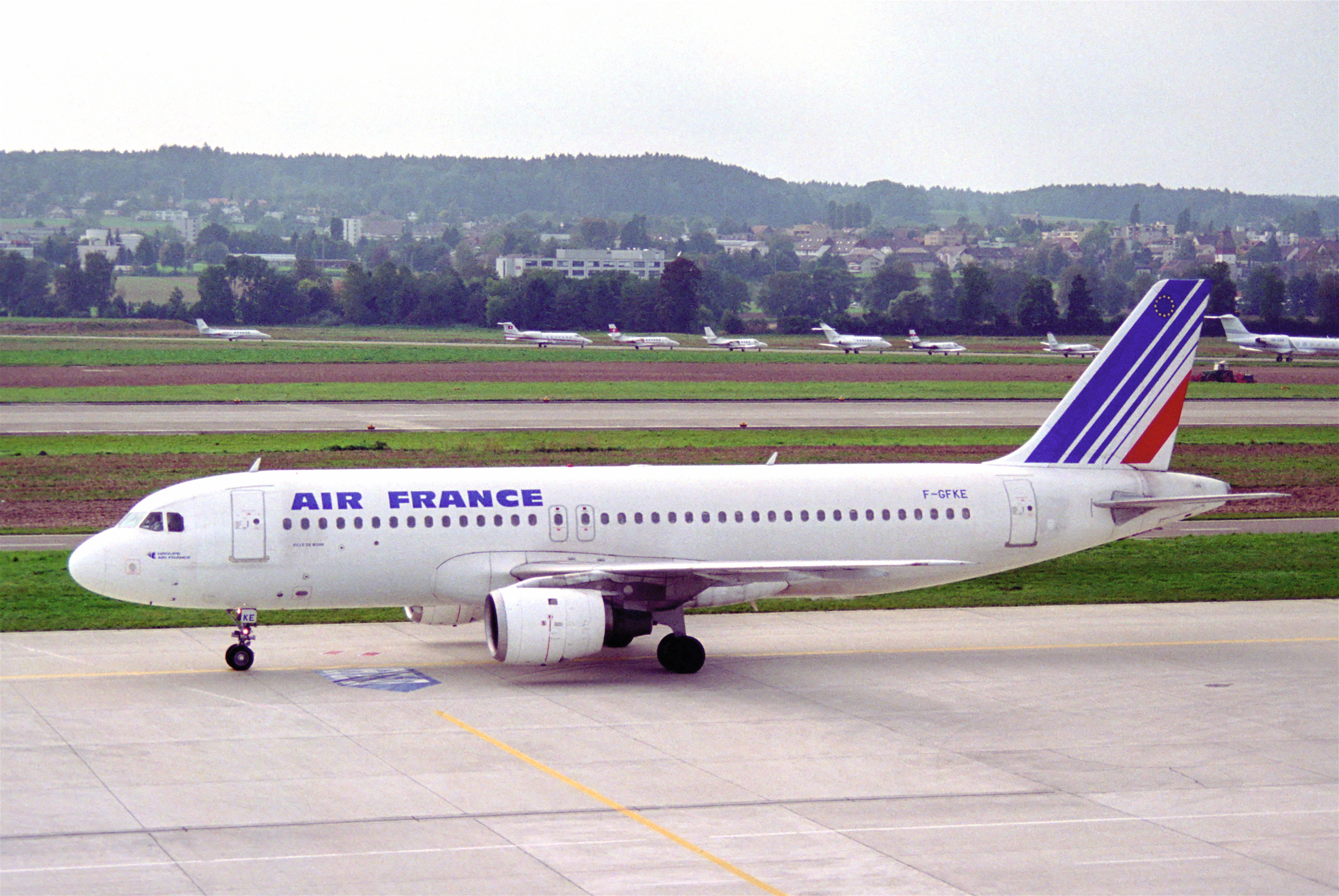 This Airbus A320-111 took its first flight on September 7, 1988...(c/n 19) 29/10/1988 Air France F-GFKE, stored 12/2009, scrapped by 08/2010